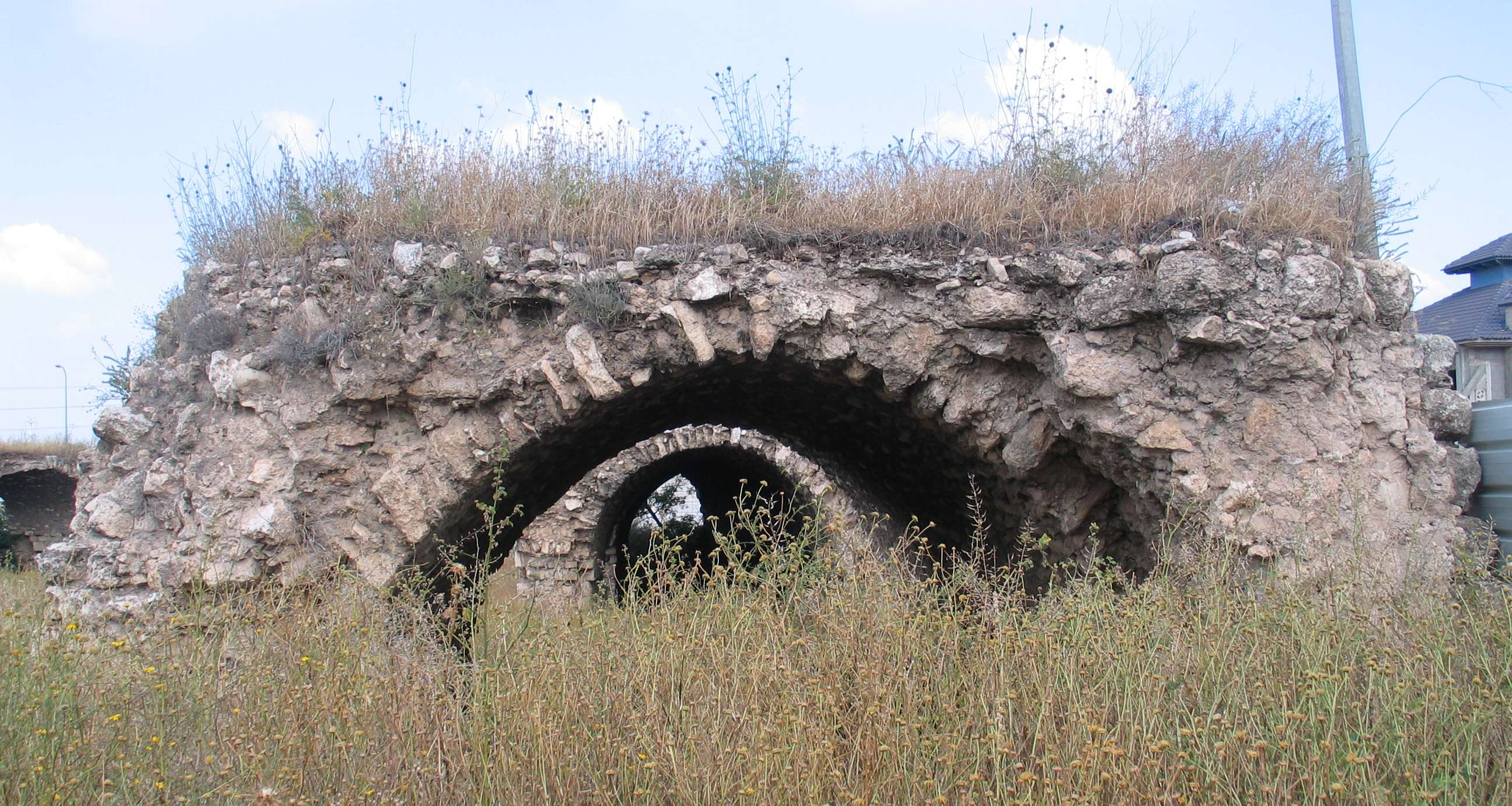 Mamluk khan (roadside inn), Jaljulia, Israel.